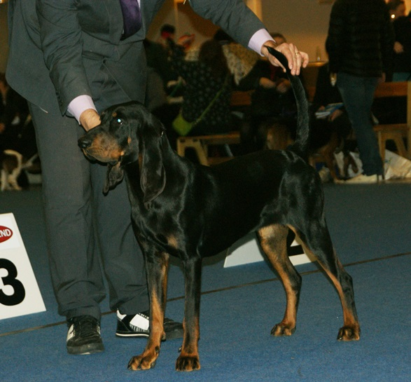 Black and Tan Coonhound female.